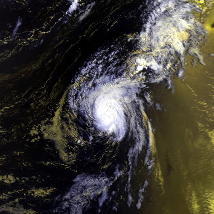 Hurricane Bonnie from NOAA-6. Inventory ID: NSS.GHRR.NA.D80229.S1014.E1207.B0591011